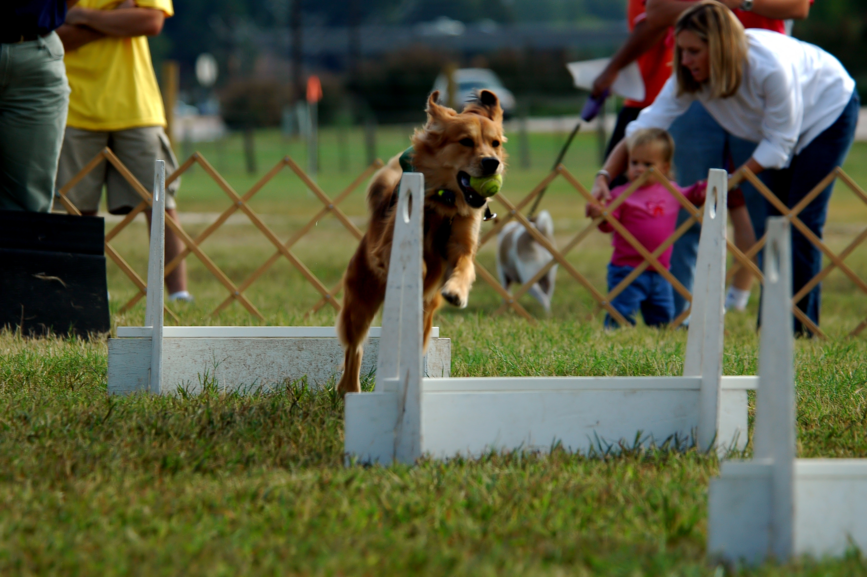 A Golden Retriever in a Flyball competition.